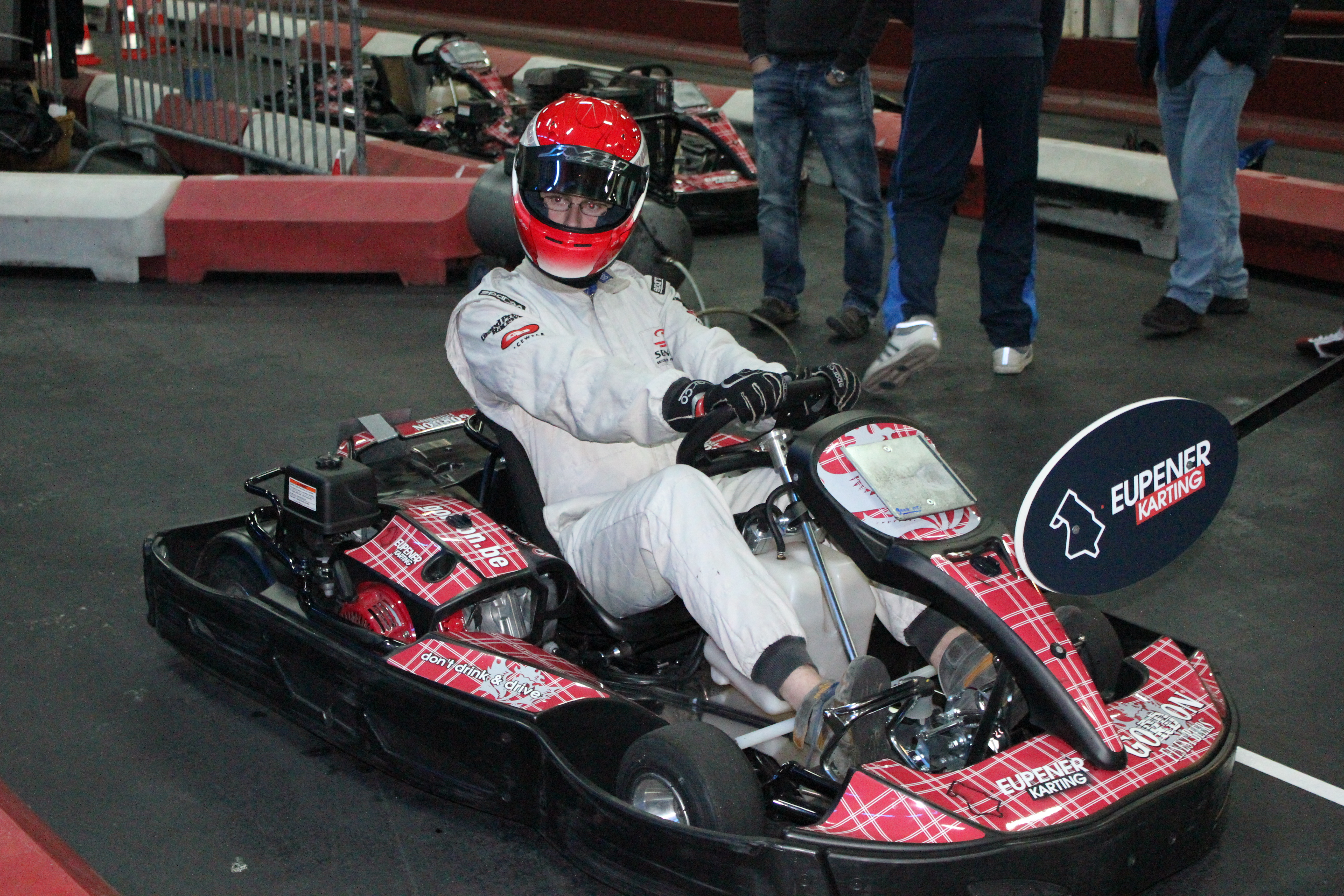 World champion 2012